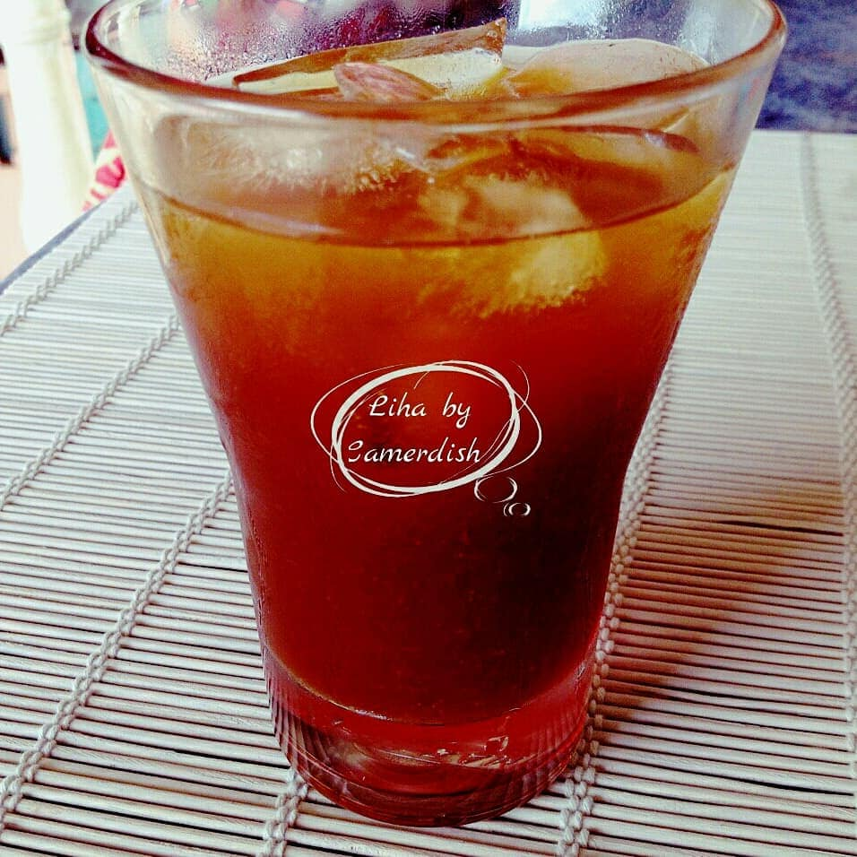 Traditional drink of Africa